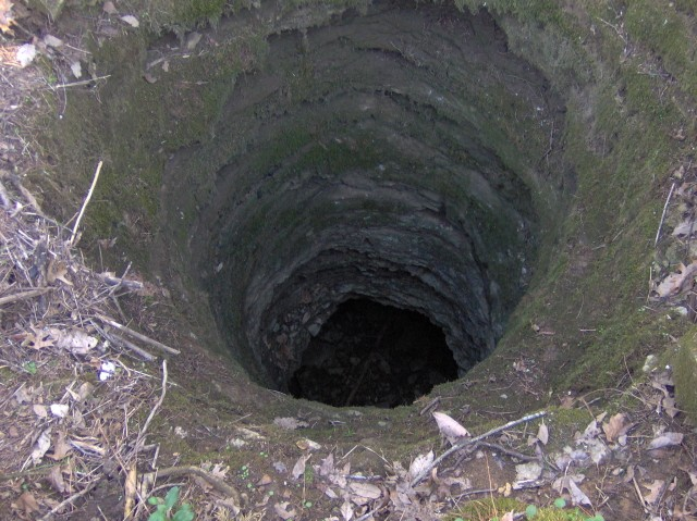 Sinkhole along the Hidden Springs Trail at Cedars of Lebanon State Park in Wilson County, Tennessee, in the southeastern United States. Sinkholes are a common feature of karst formations.